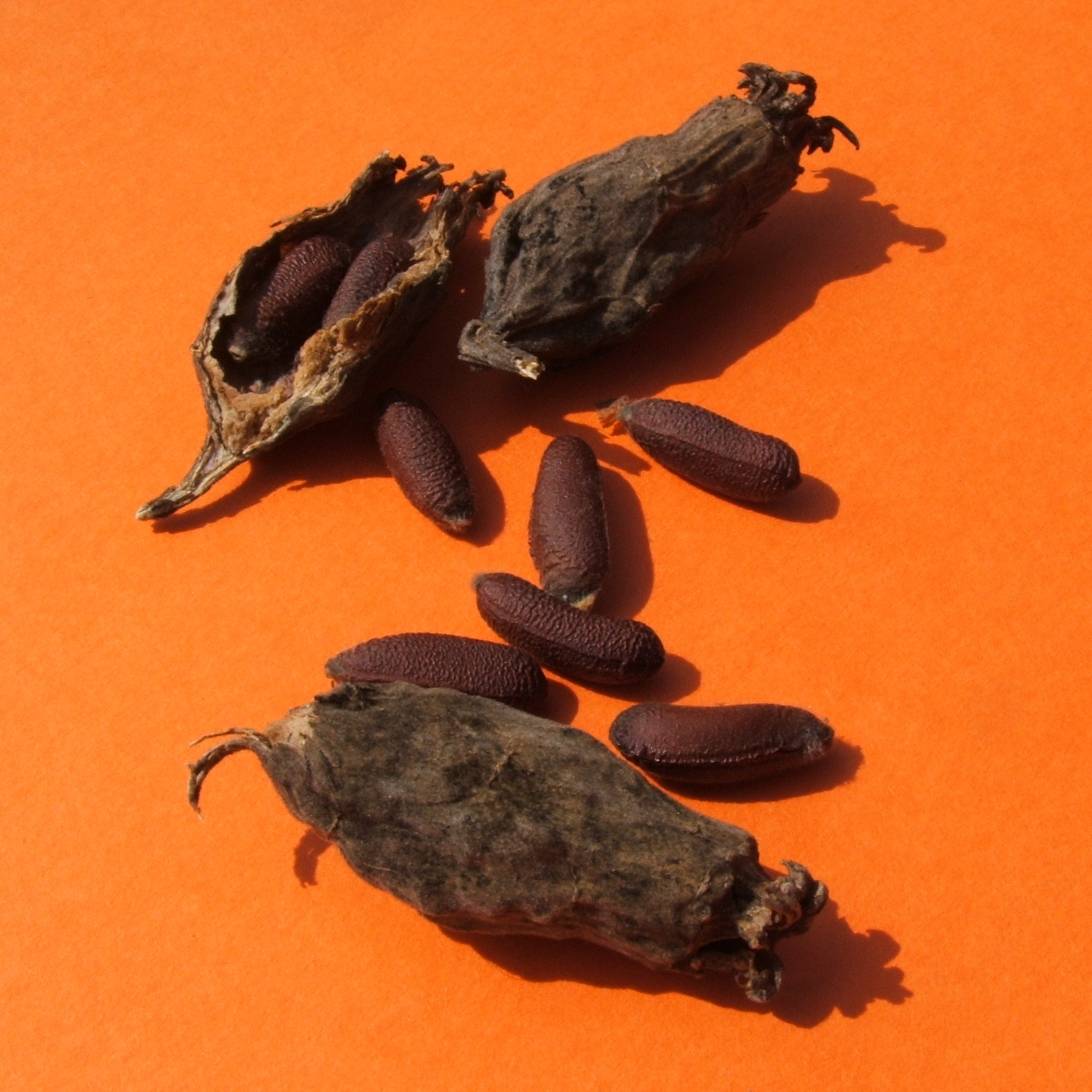 Seeds and capsules of Chimonanthus praecox